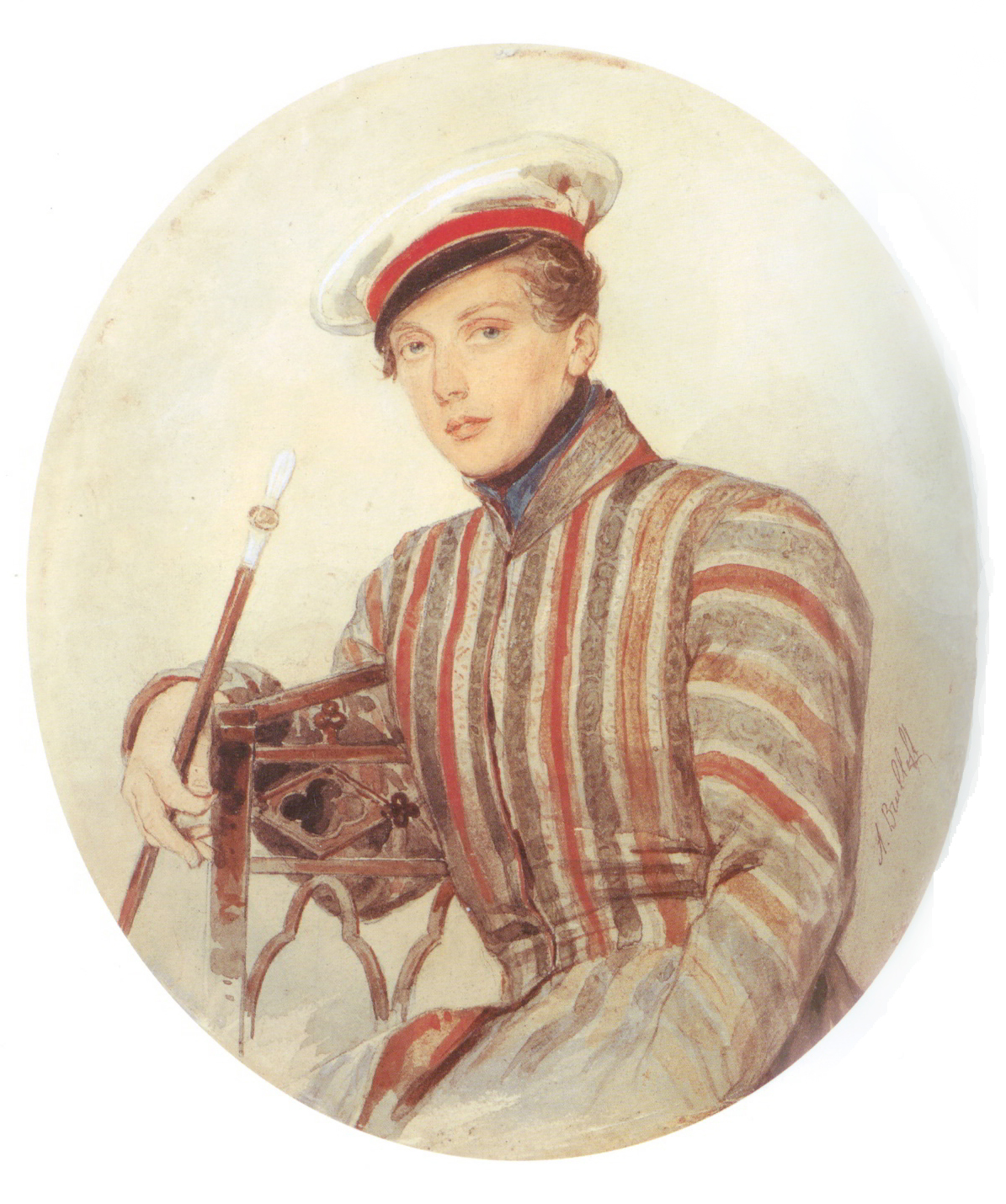 Alexander Arkadyevich Suvorov